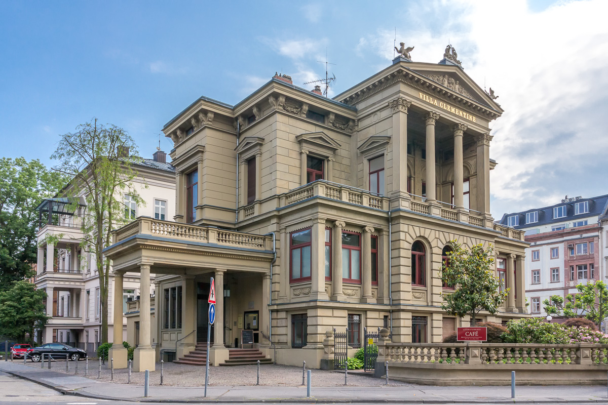 Villa Clementine, House of Artists, Wilhelmstraße Wiesbaden